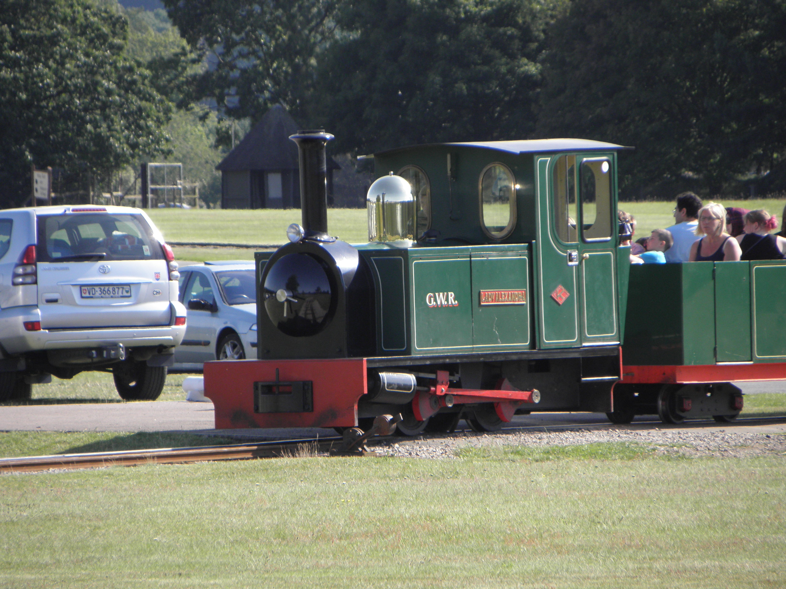 Lady Alexandra, the 20in (508mm) gauge engine (built to resemble a small steam loco) on the Great Woburn Railway in Woburn Safari Park, in 2011